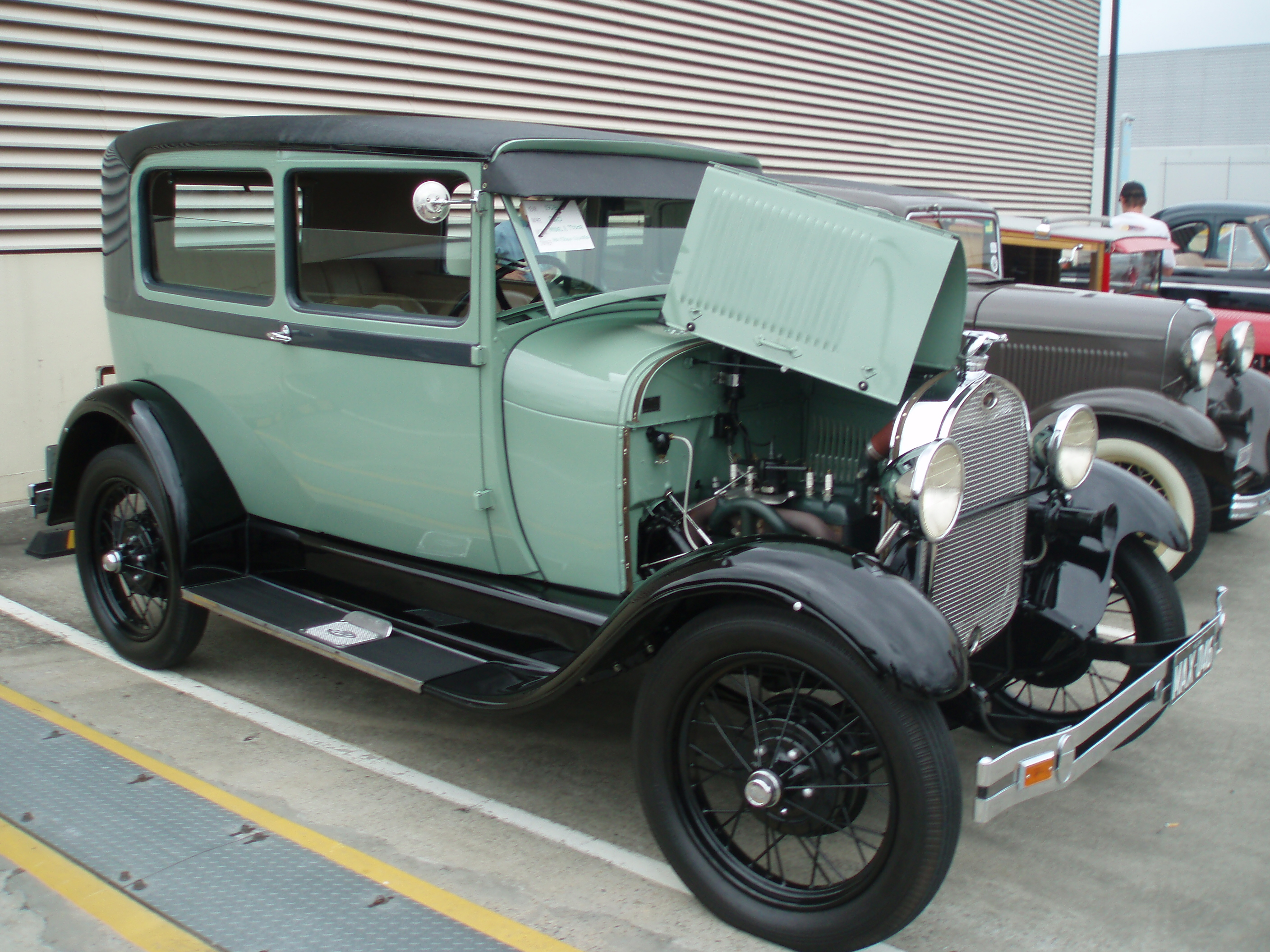 1928 Ford Model A Tudor sedan. Taken at the 2011 New South Wales All American Day, held at Castle Towers Shopping Centre, Castle Hill, Sydney.